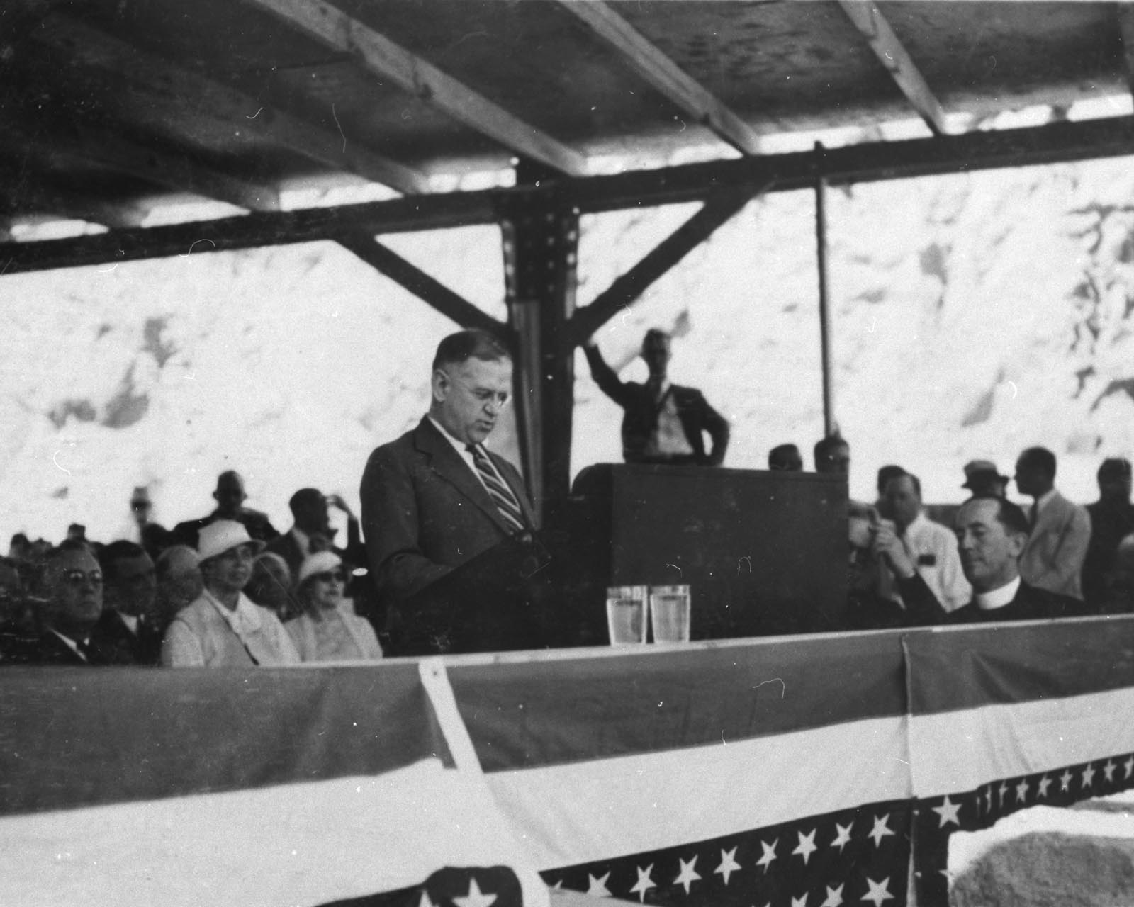 Interior Secretary Harold L. Ickes delivers his talk at the dedication of Hoover Dam (then Boulder Dam)